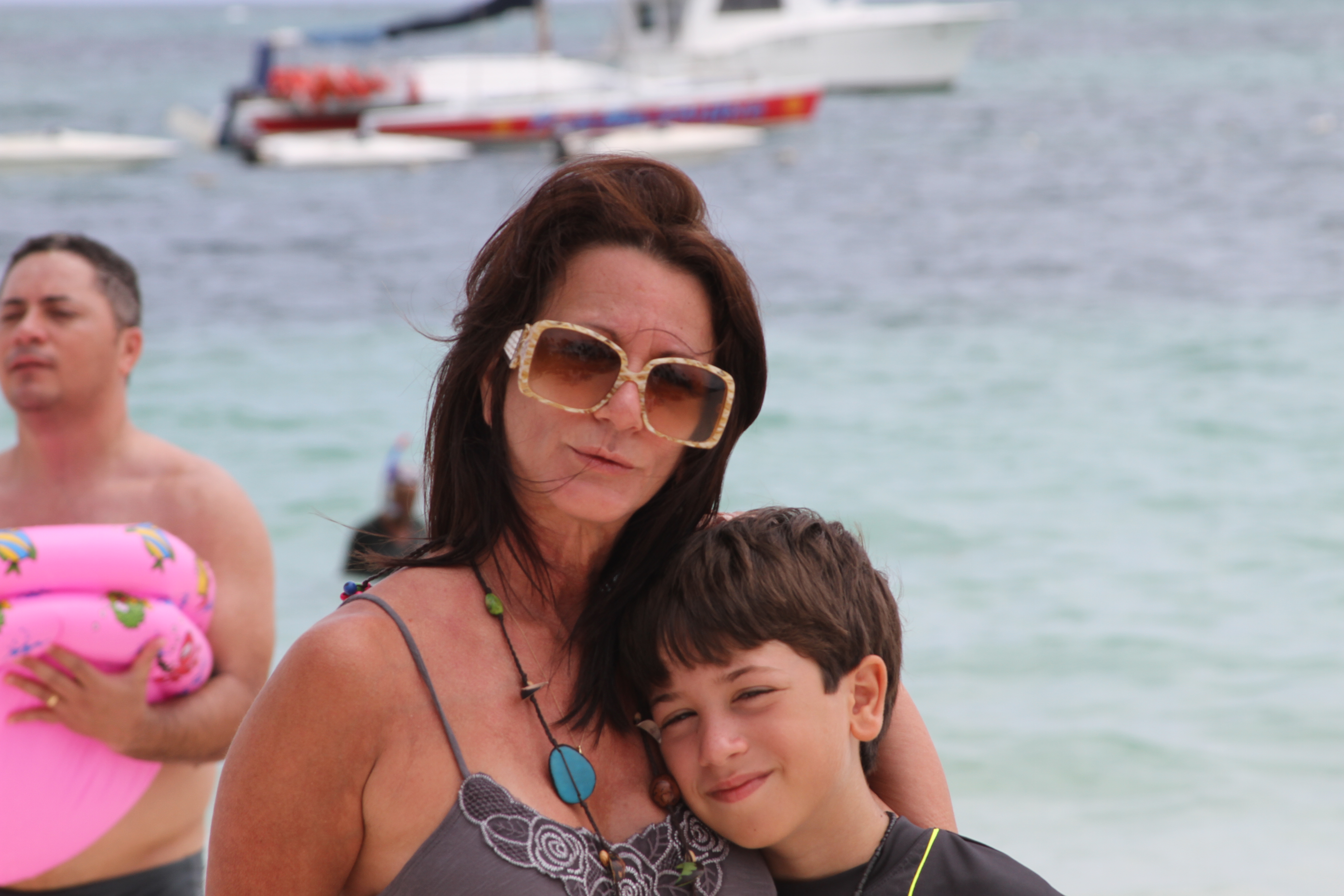 Leonila Hernández Sánchez (Nila), wife of actor and TV Host Tony Cortés.